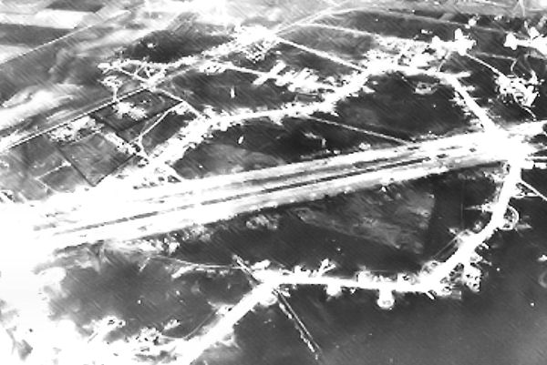 Amendola Airfield, Italy, 1944